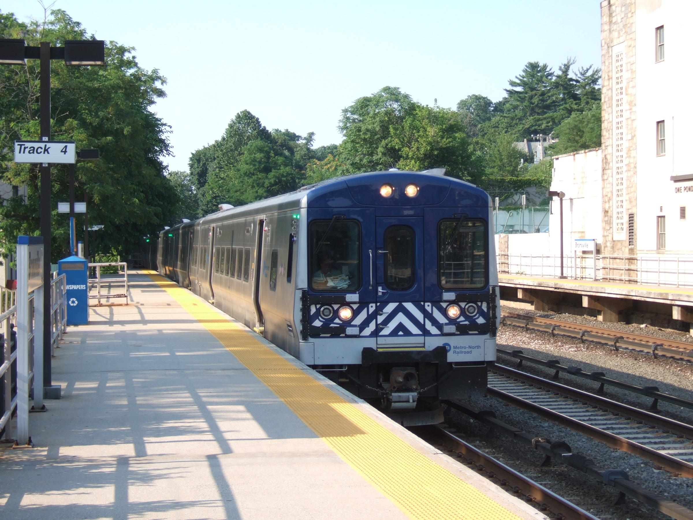 Metro North Railroad train arriving at Bronxville station in Bronxville, NY. Taken July 2006. See also File:Bronxville Track 1 jeh.JPG